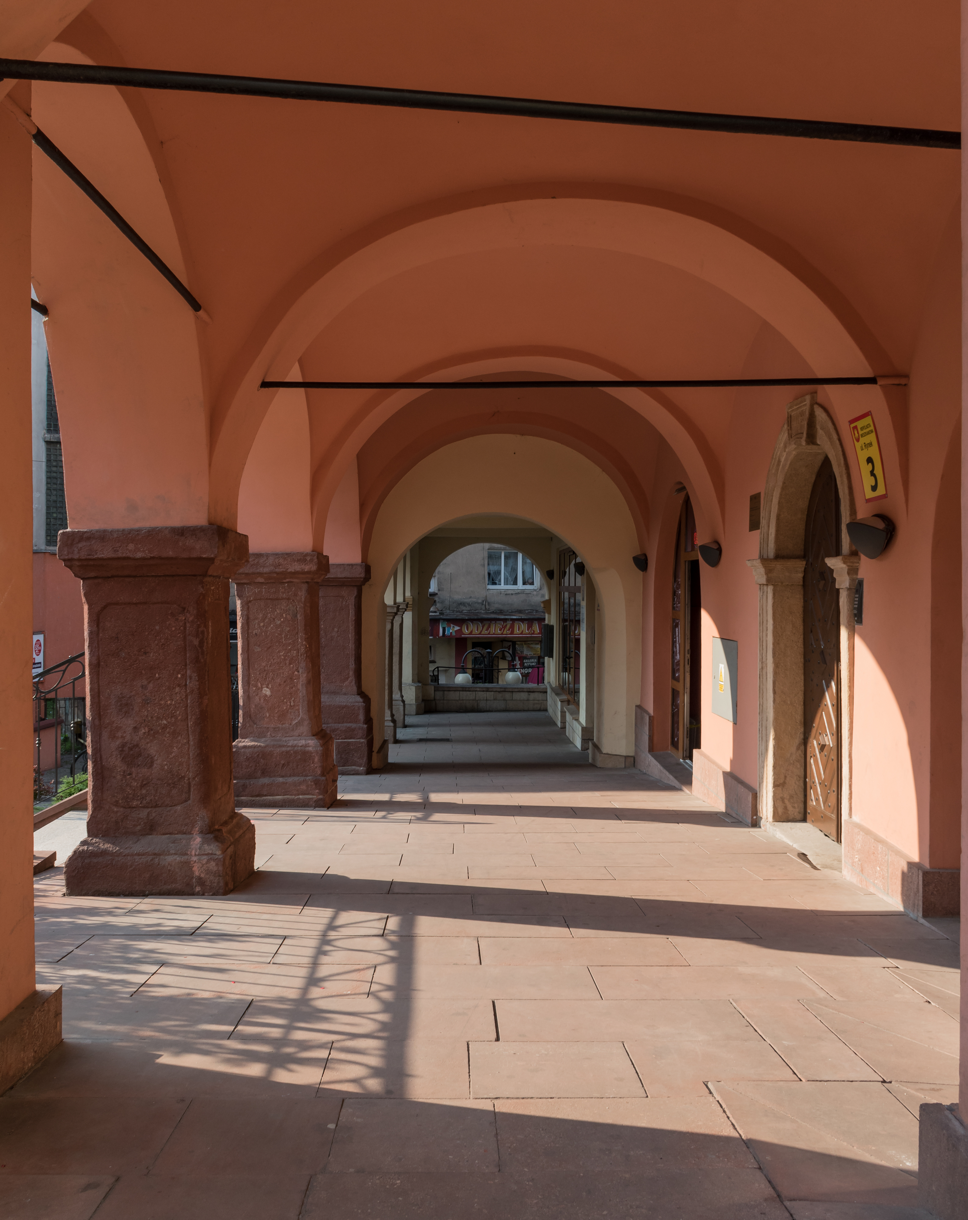 3 Market Square in Nowa Ruda